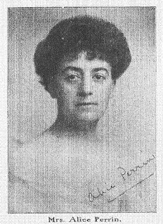 image is from "The Bookman" in 1906